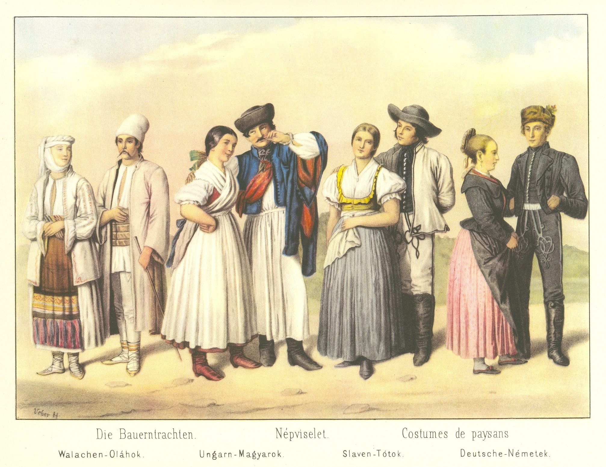 Traditional peasant clothing of Hungary: Romanians, Hungarians, Slovaks and Germans